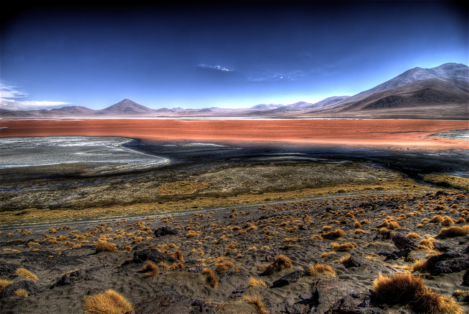 Weird red lake seen on our three-day jeep trek near Uyuni. October 2007.